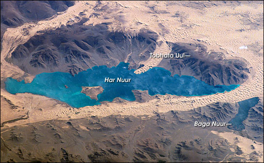 Sand Dunes in Har Nuur (Black Lake), Western Mongolia The annotation is based on incorrect sources. The correct name of the mountain range is Tovkhosh Mountains. Unannotated versions of this image are available on Commons as File:Har Nuur.jpg and File:Khar-Nuur